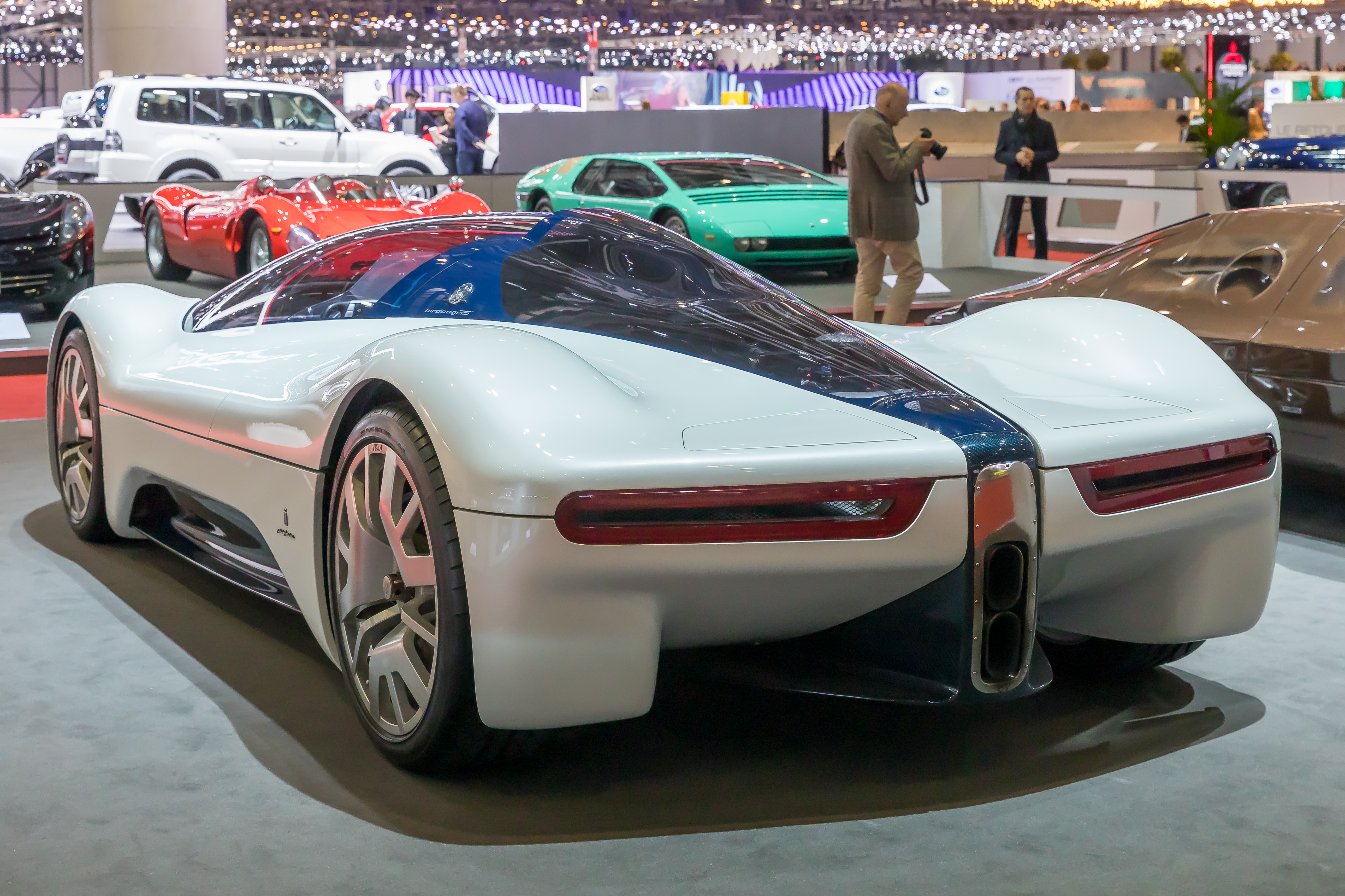 Geneva International Motor Show 2018, Maserati Birdcage 75th